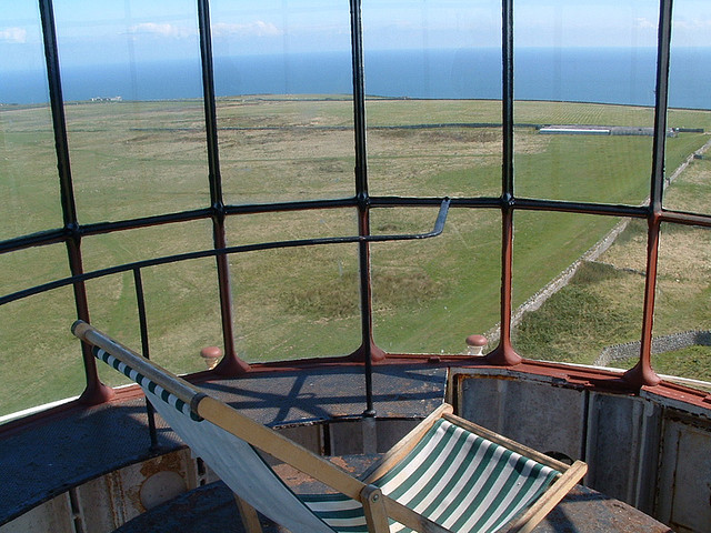 The most relaxing place on the island - on a deck chair in the old lighthouse